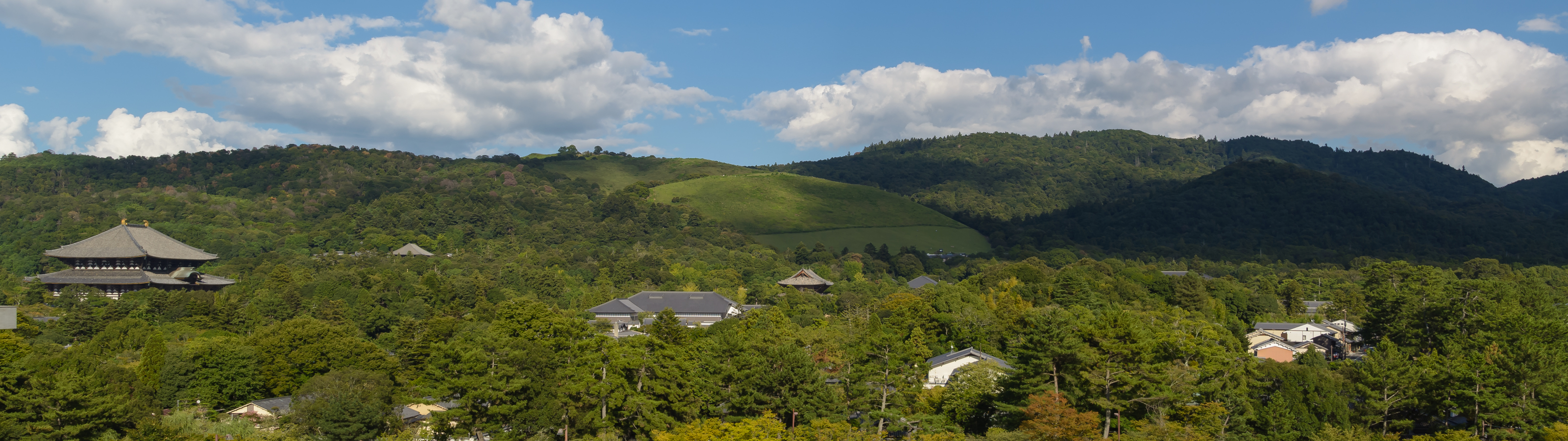 Wakakusayama Hill and Nara Park from Nara prefectural government office